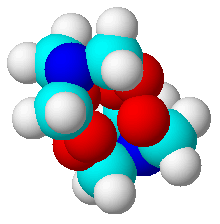 3D Model of HMDT - hexamethyleneperoxidodiamine